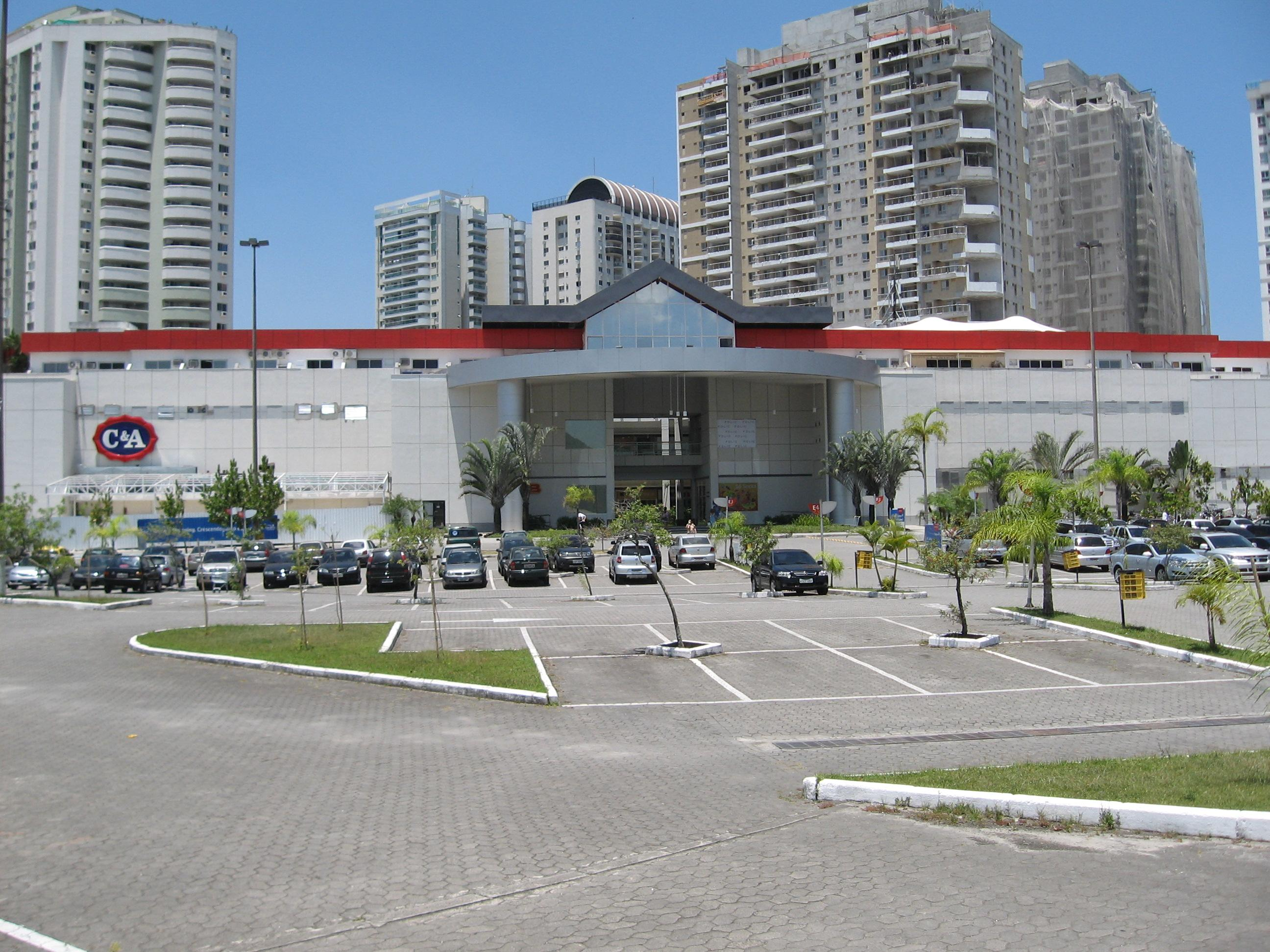 Recreio Shopping-Rio de Janeiro-Brazil